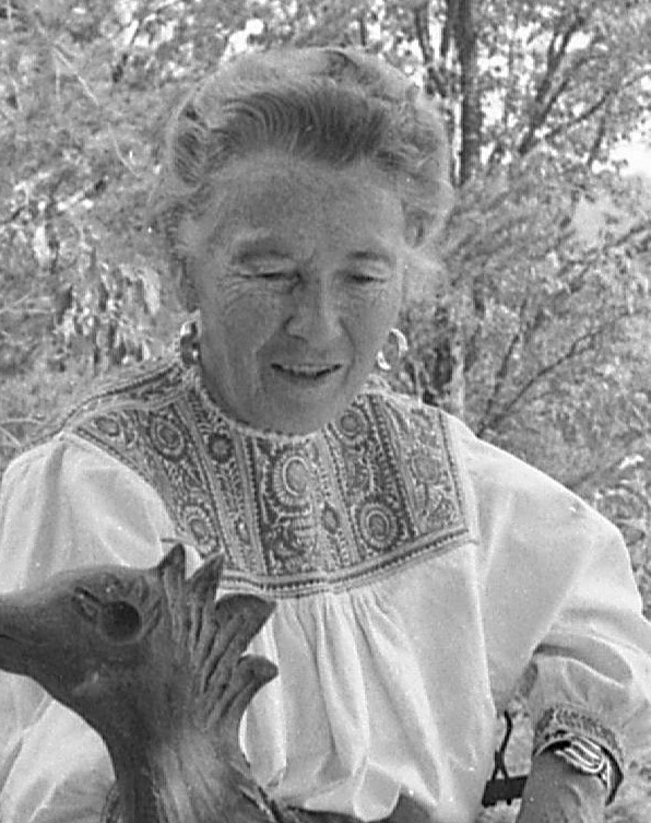 Cropped from a photo by User:Eric Martz in 1963. Photo taken at La Tour's home which she called Saint Blue Cloud's House, at the top of Bryson's Lane in Nashville, Indiana. Ceramic bird sculpture in foreground is by Becky Brown, wife of Karl Martz. Uncropped original photo is image 36 from Roll 98, available from the Indianapolis Museum of Art Archives.